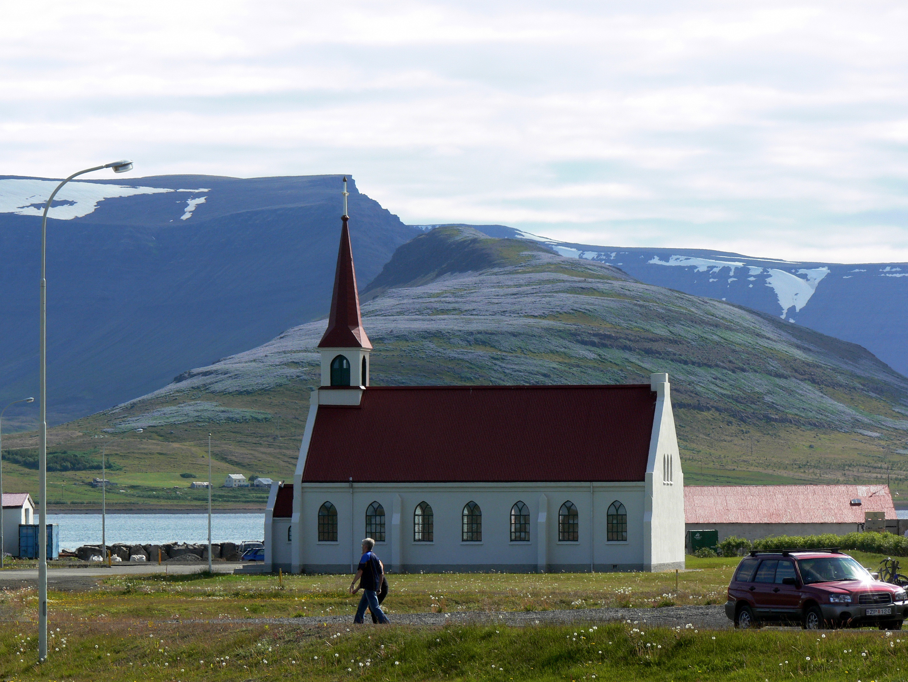 Þingeyrarkirkja church in Dýrafjörður. Built in 1911